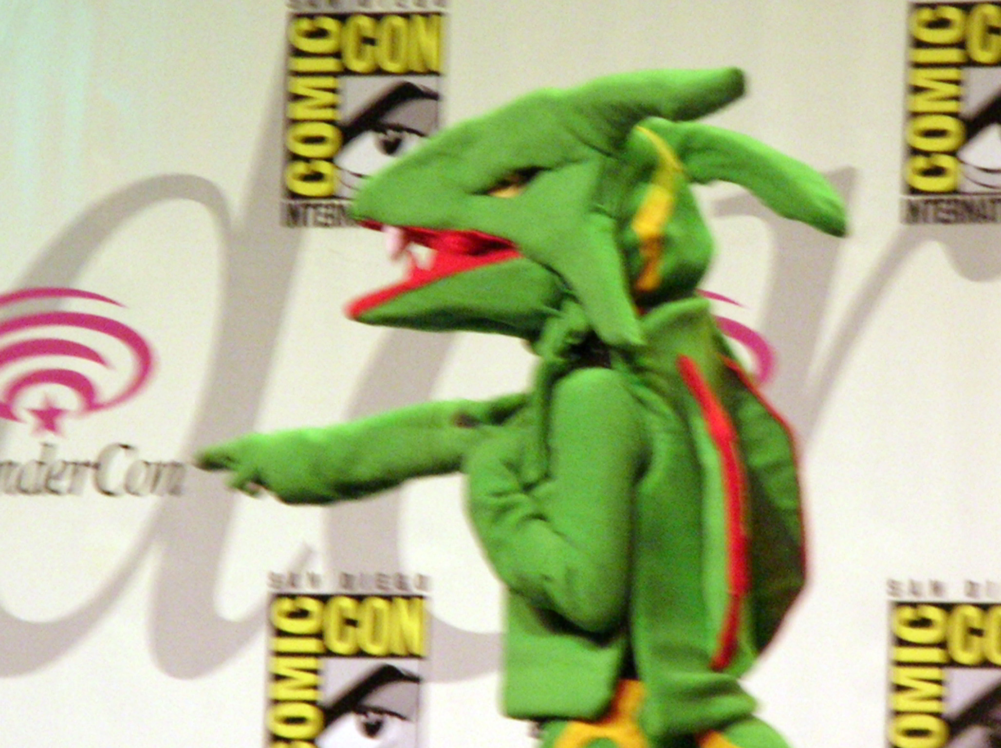 A cosplayer portraying Rayquaza from Pokémon at the WonderCon 2010 Masquerade.